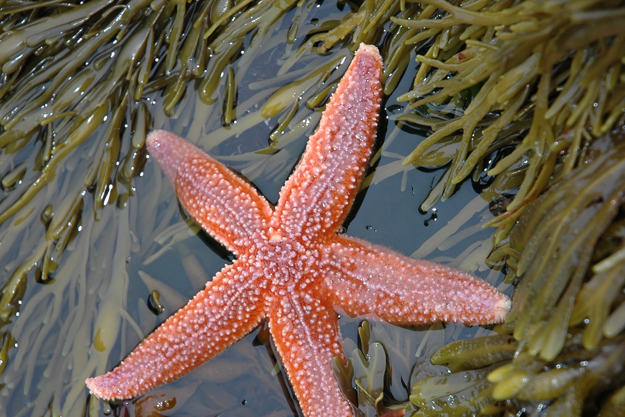 Sea star (possibly Asterias rubens) in tidepool at Ship Harbor in Acadia National Park, USA